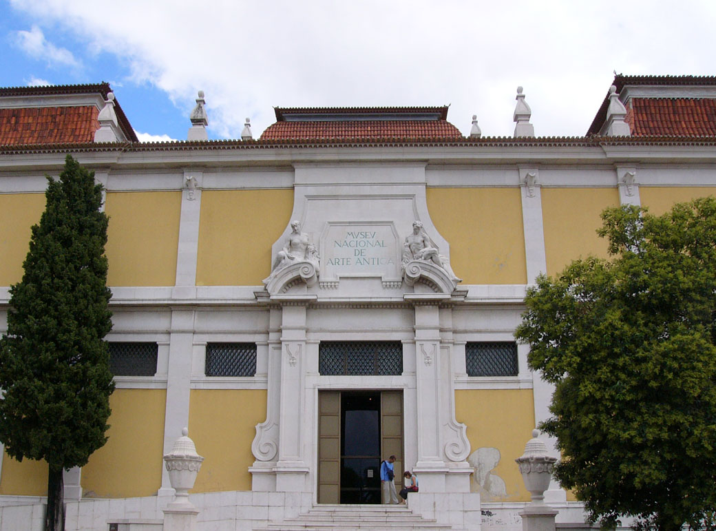 Entrance to the National Museum of Ancient Art, Lisbon